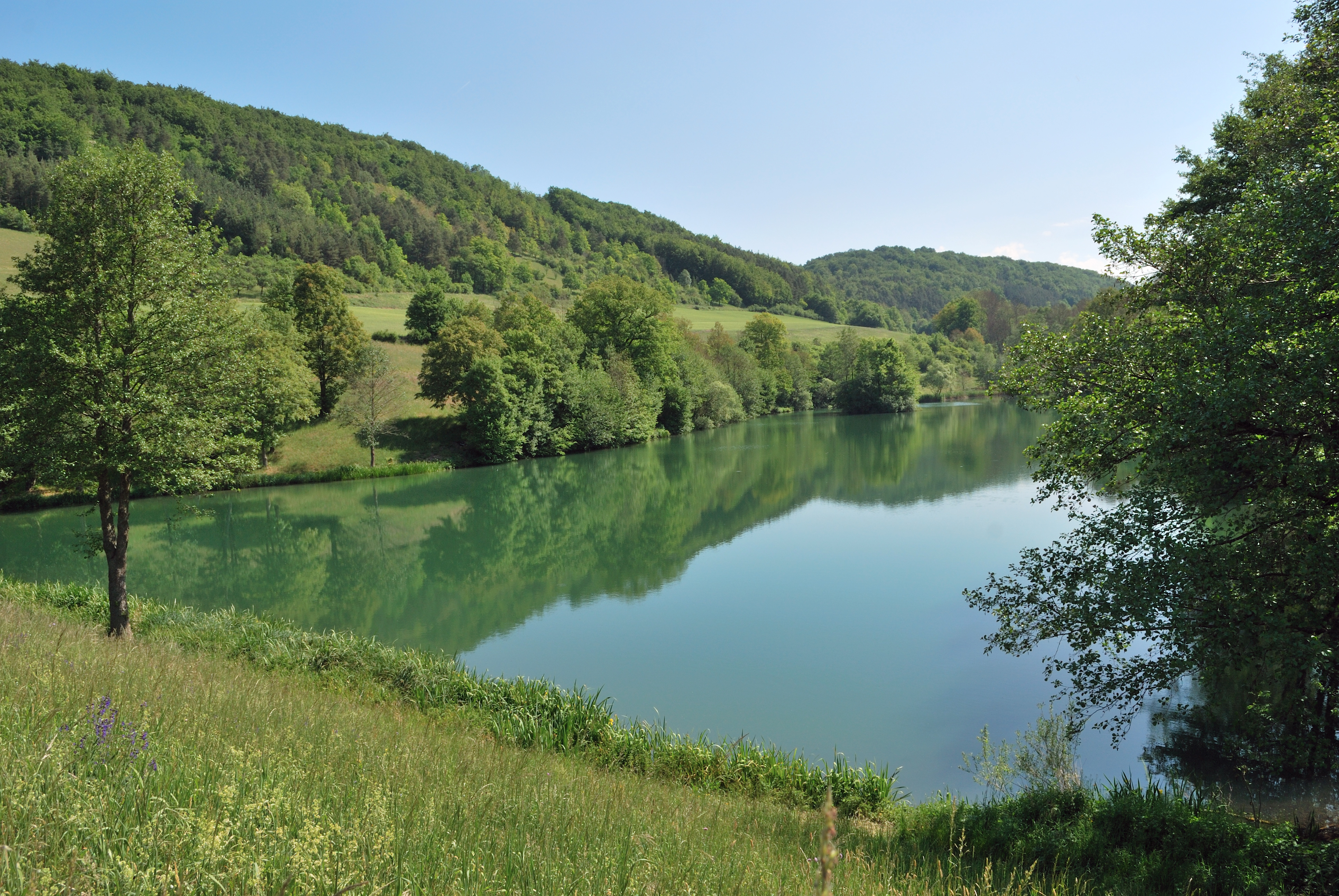 A dammed lake in Mulfingen in Southern Germany.